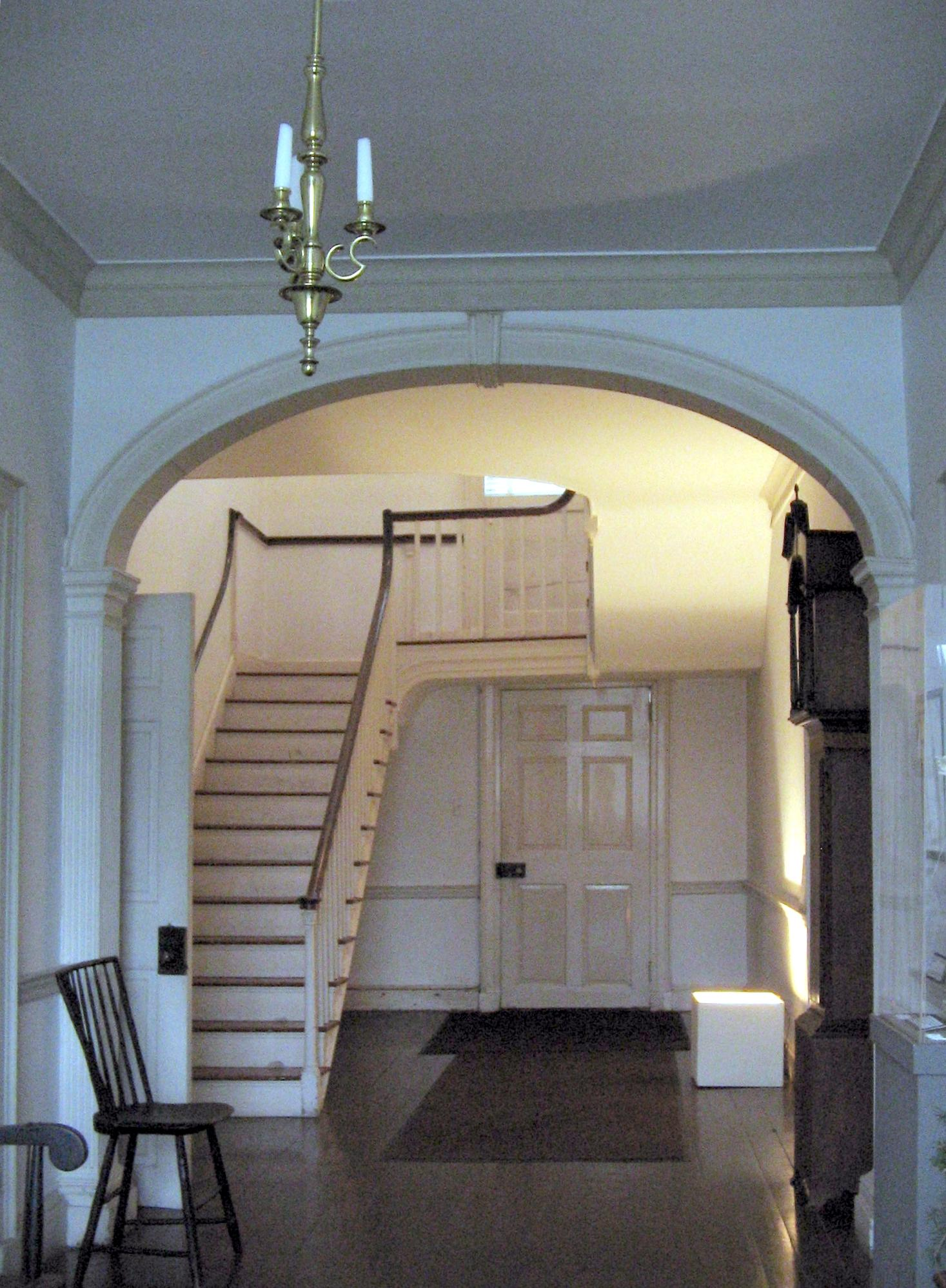 Entrance hallway (foyer) of the Joseph Priestley House in Northumberland, Northumberland County, Pennsylvania, USA. View is from the main door on front (river, southeast) side of the house to back (Priestley Ave., northwest) side.